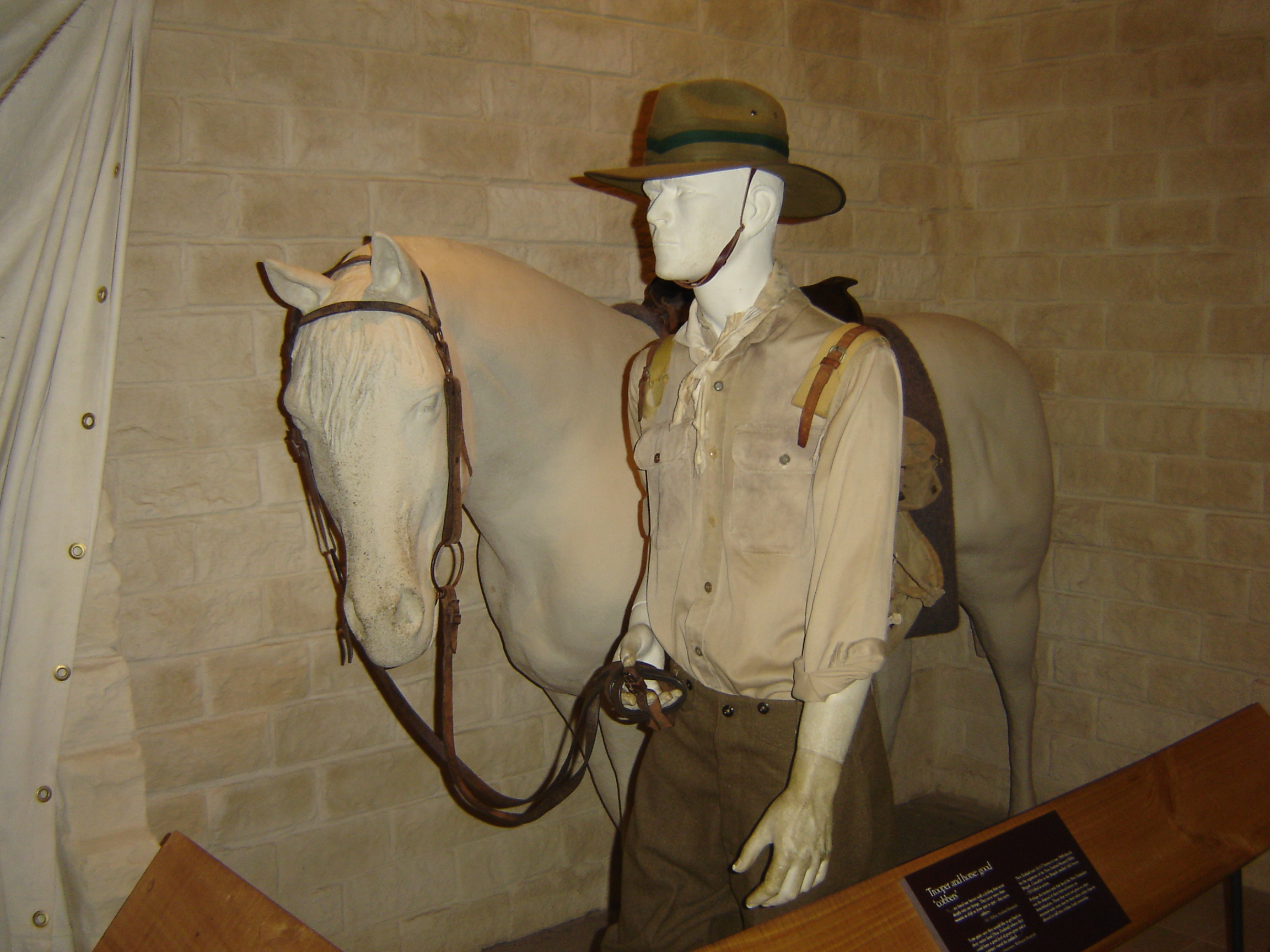 A model of a typical ANZAC soldier with his horse during the Sinai and Palestine campaign, on display at the Auckland War Memorial Museum.